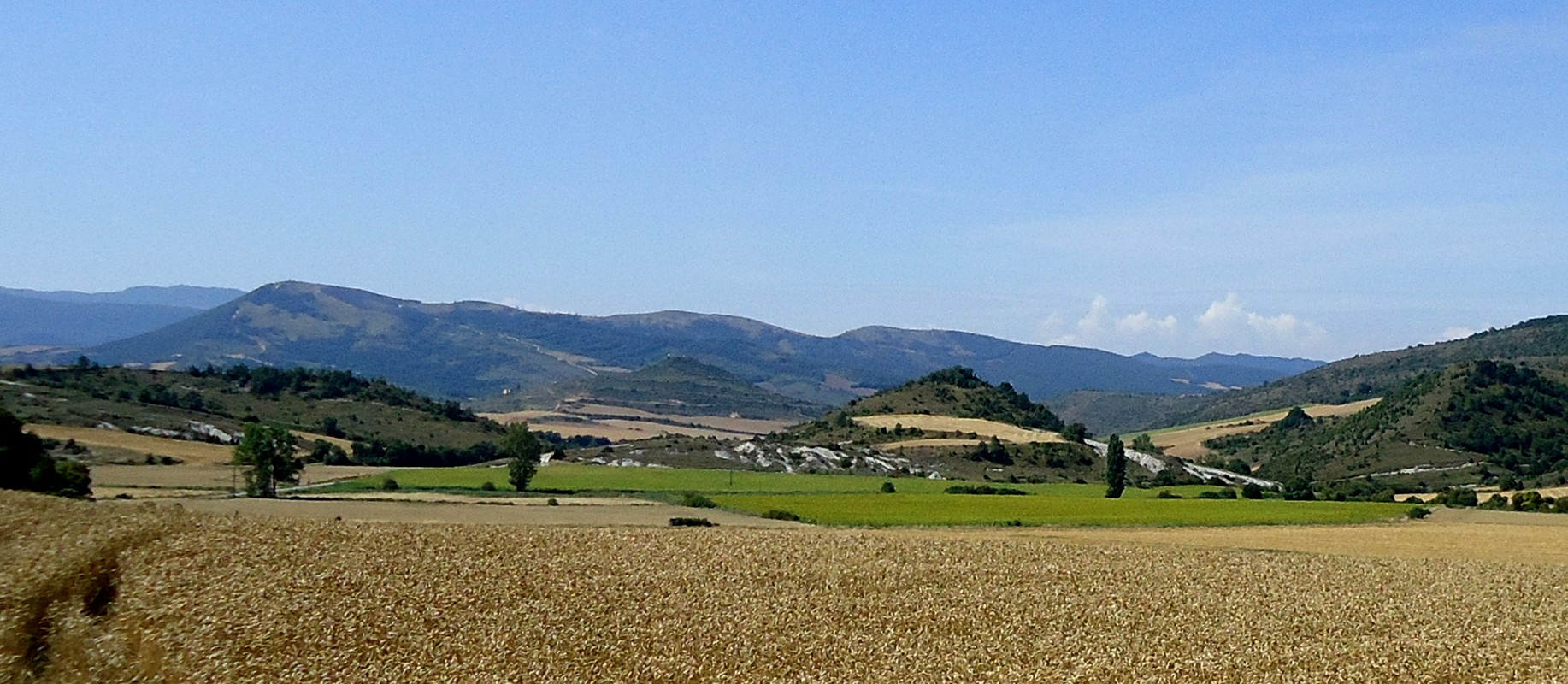 Landscape in the County of Treviño